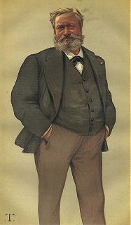 Caricature of Edmond François Valentin About. Caption read "French fiction".